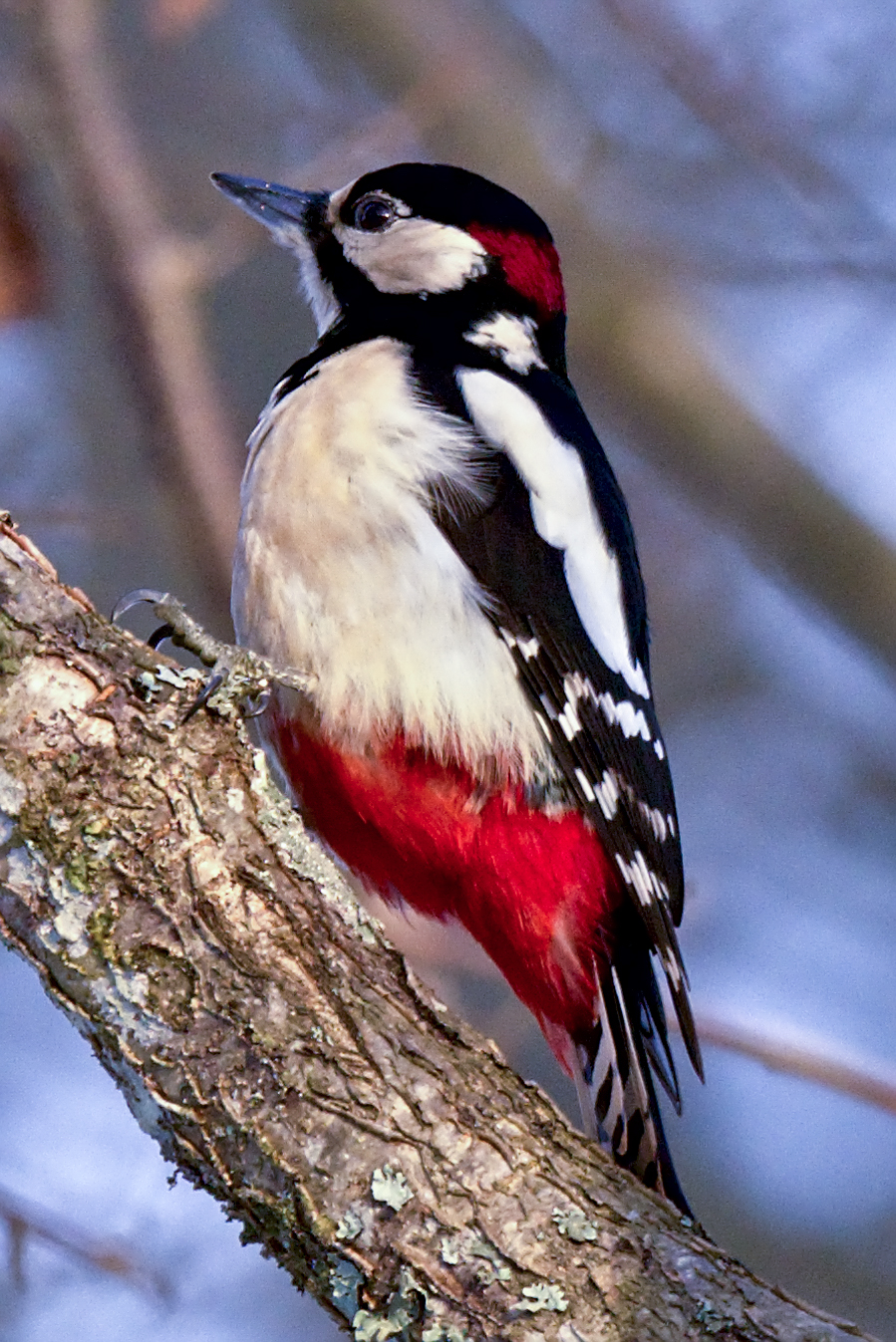 Dendrocopos major, male.